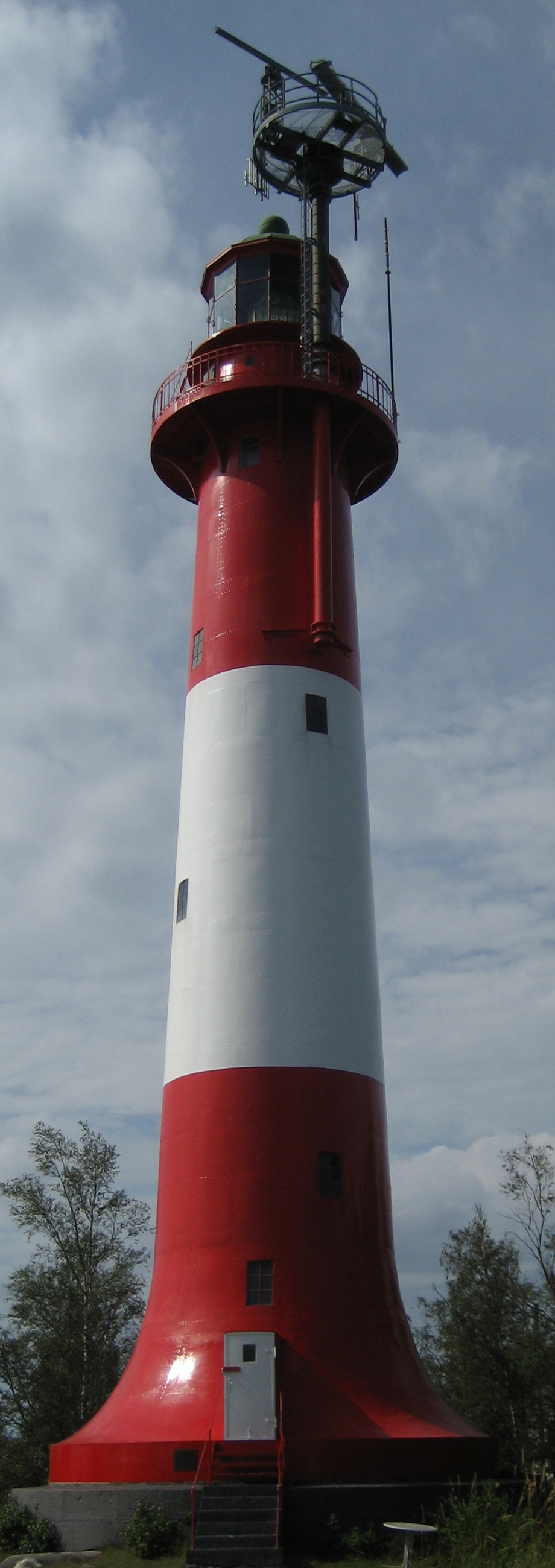 The lighthouse on Tankar island near Kokkola, Finland.